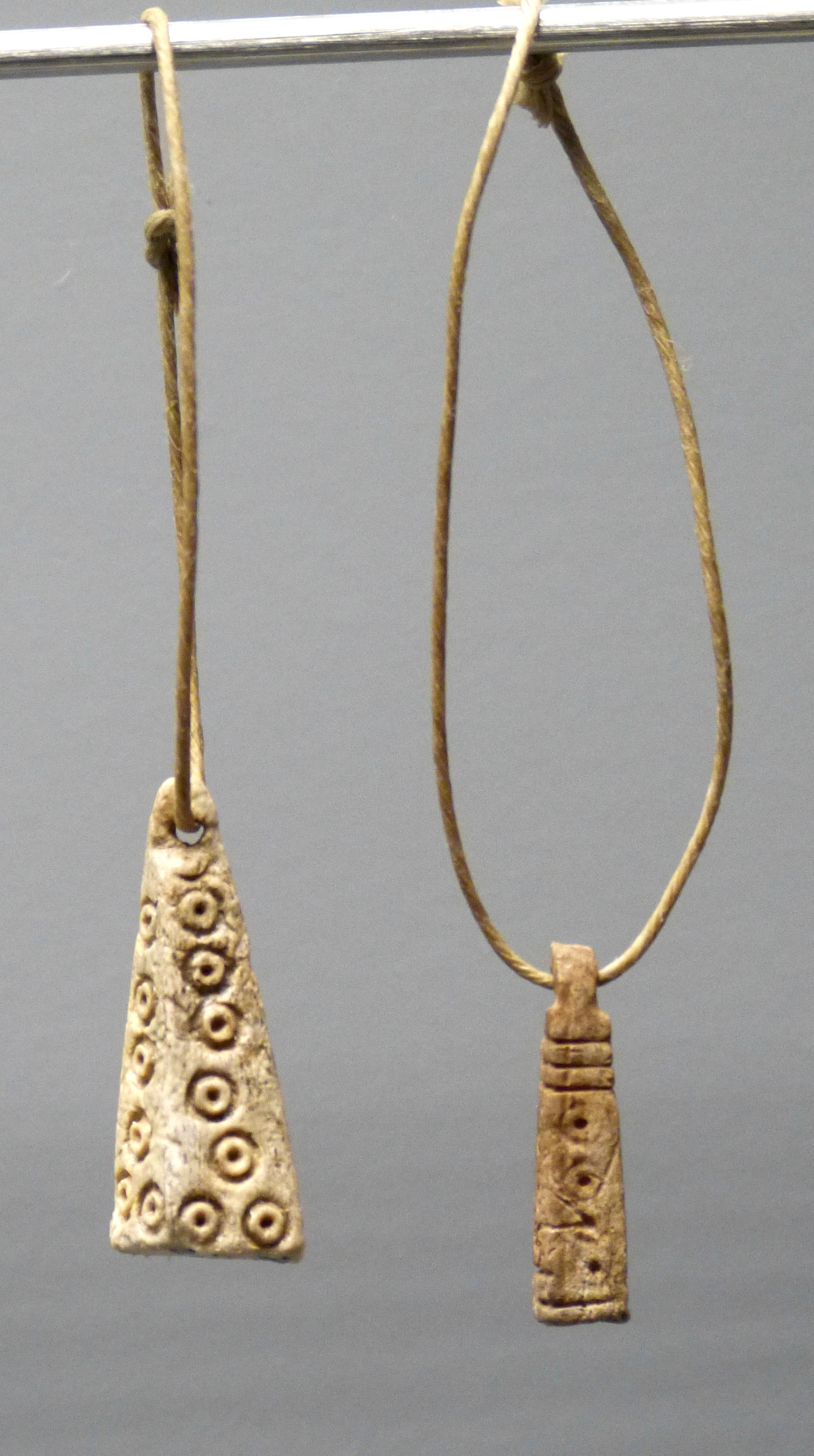 Landau an der Isar ( Lower Bavaria ). Archaeological Museum of Lower Bavaria: Pendants in form of so-called "Donar's clubs".